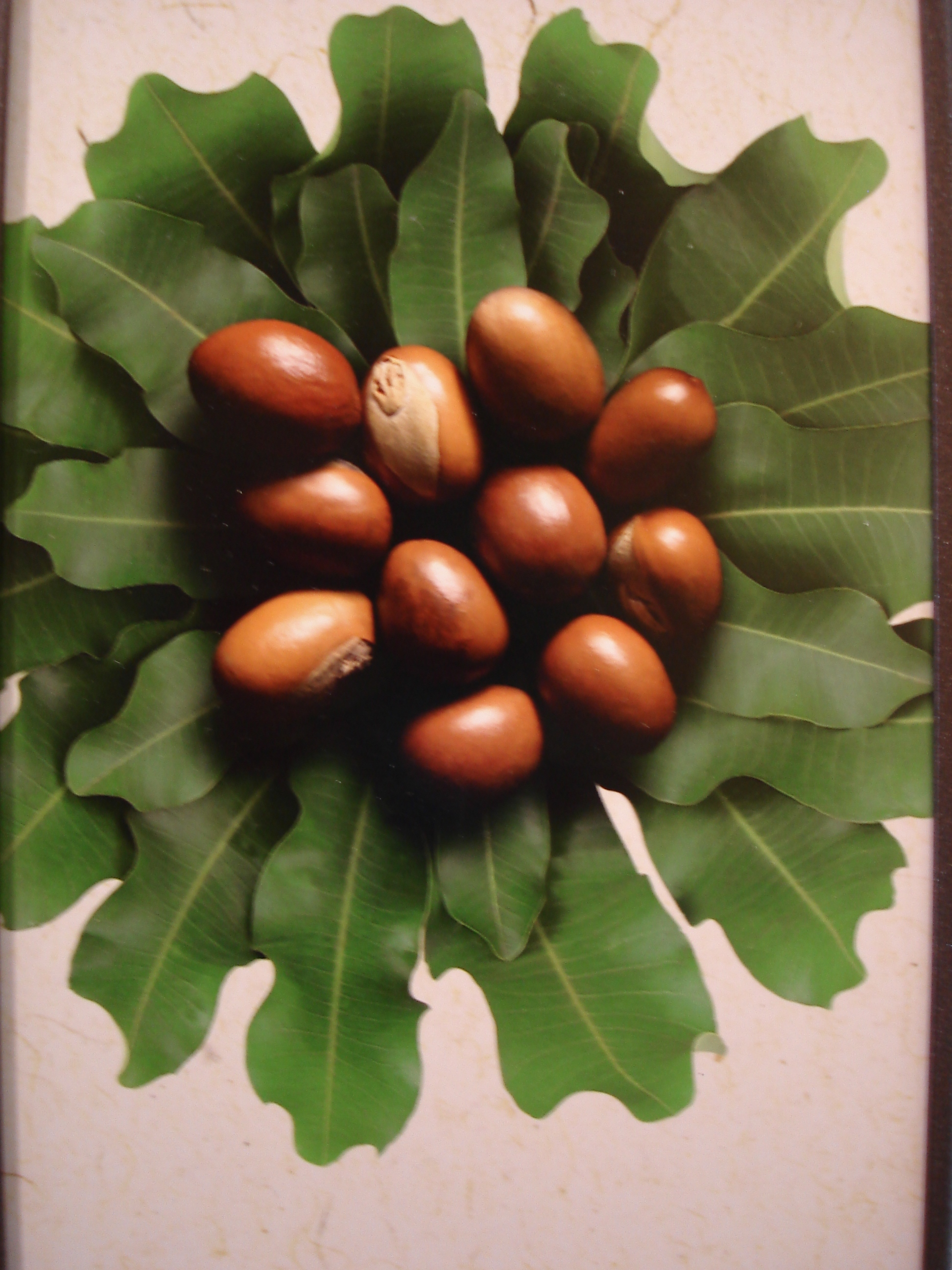 Karitenüsse